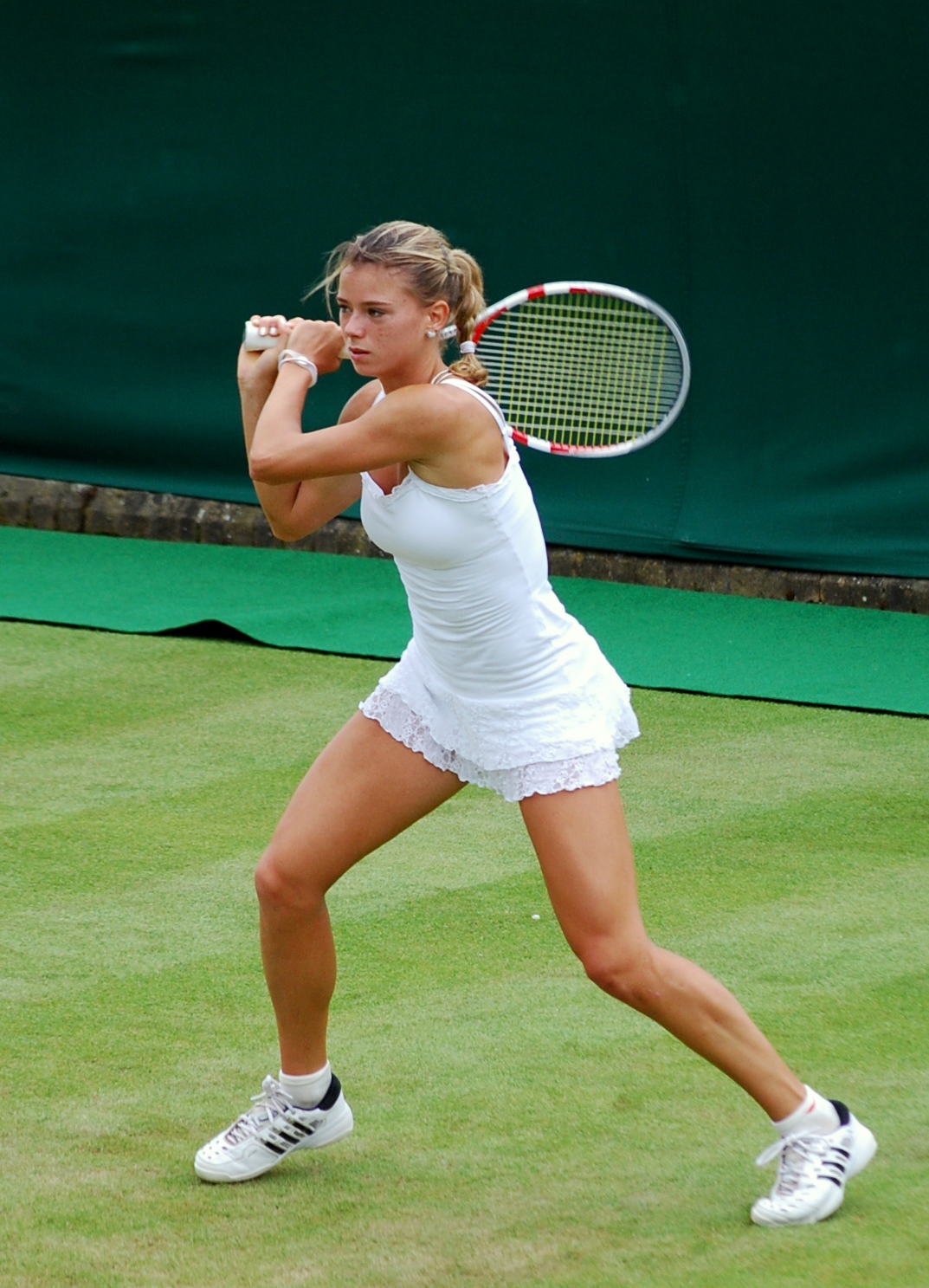 Camila Giorgi during her first round match with Tsvetana Pironkova. Pironkova won 6-2, 6-1. Day 2 of Wimbledon 2011.